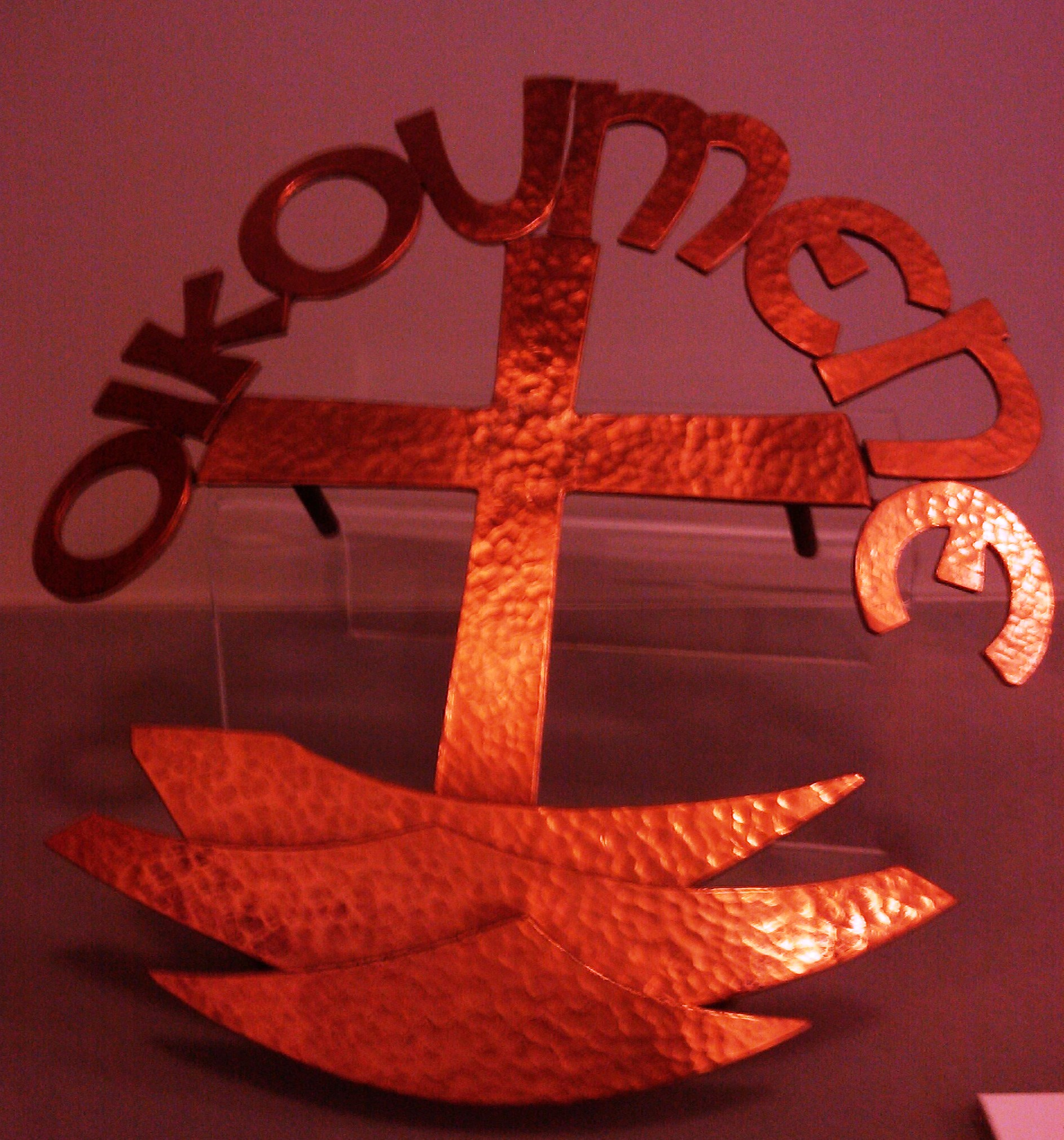 This OIKOUMEME sculpture is on permanent display in Derby Museum and Art Gallery. Ronald Pope has not been dead for 70 years but these are free under UK freedom of panorama rule for copyright